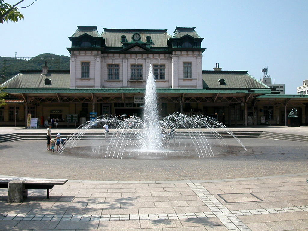 Picture of Mojiko station